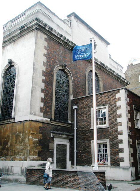 Flagpole outside "The Seaman's Church" St Michael, Paternoster Royal is the headquarters of The Mission to Seafarers.